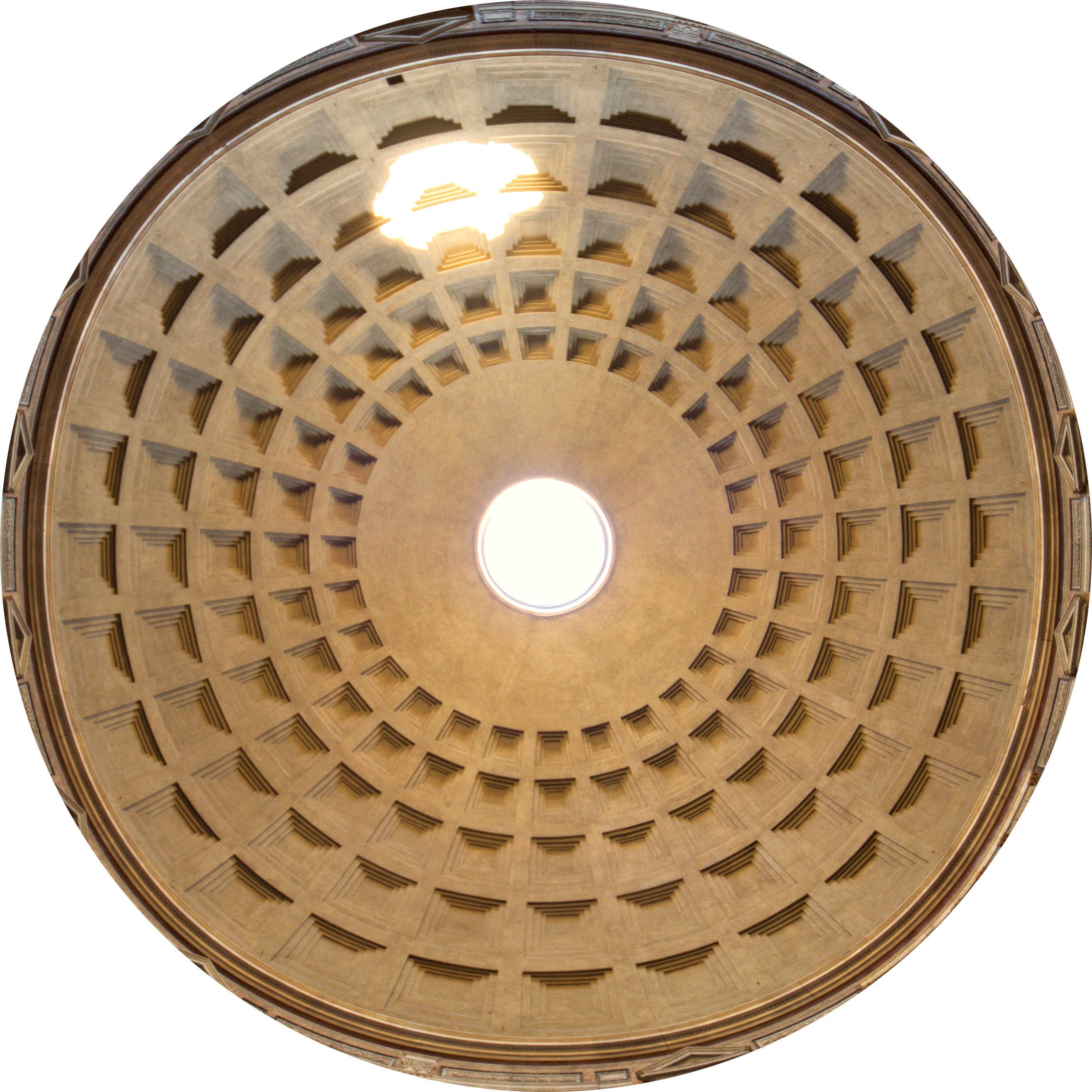 complete cupola of Pantheon Rome